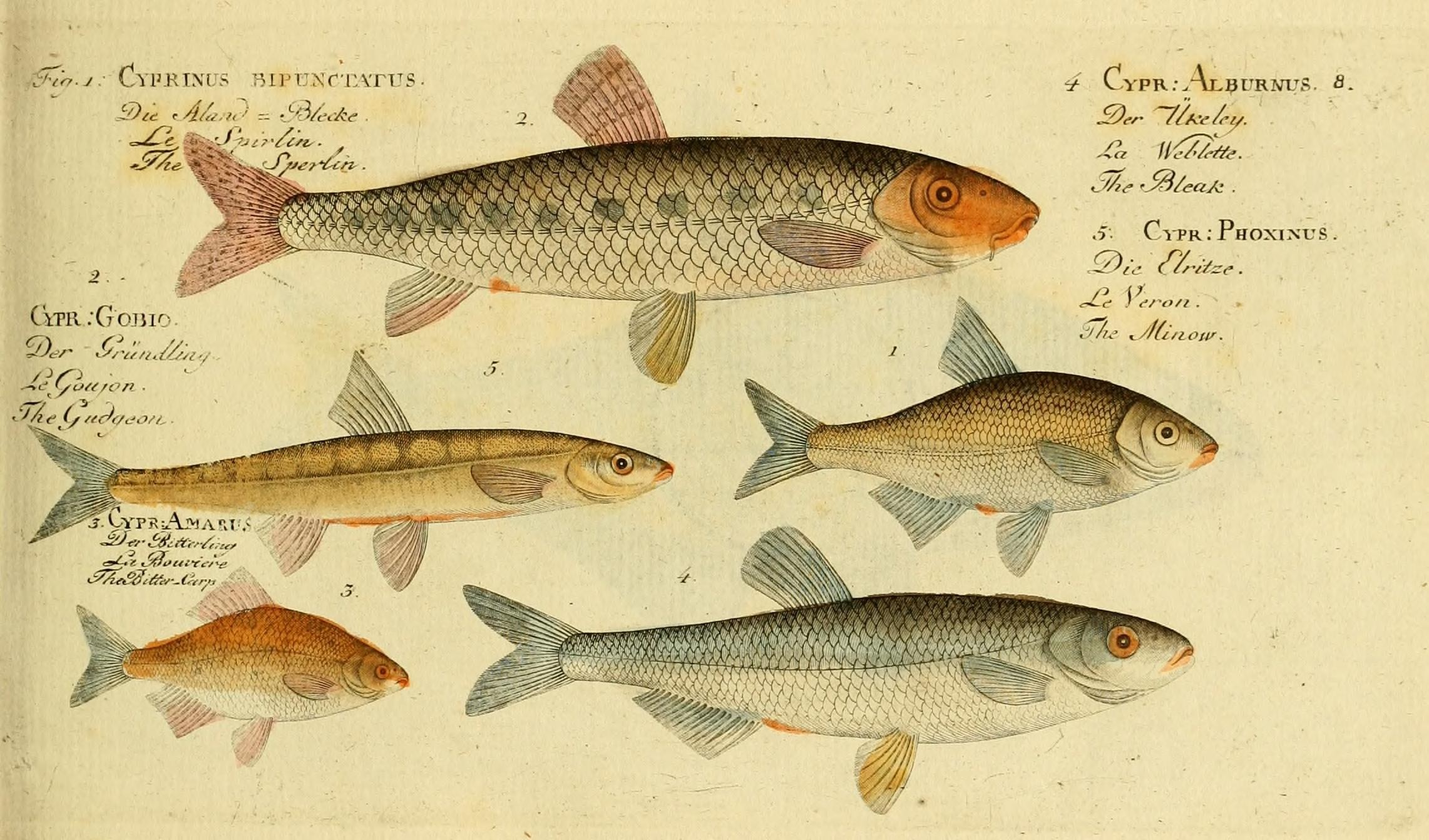 Fig.1: Cyprinus Biponctatus Die Aland = Blecke Le Spirlin The Sperlin 2. Cyprinus. Gobio Der Gründling Le Goujon The Gudgeon 3. Cyprinus. Amarus Der Bitterling Le Bouviere The Bitter Carp 4. Cyprinus. Alburnus Der Ükeley La Weblette The Bleak 5. Cyprinus. Phoxinus Die Elritze Le Veron The Minow